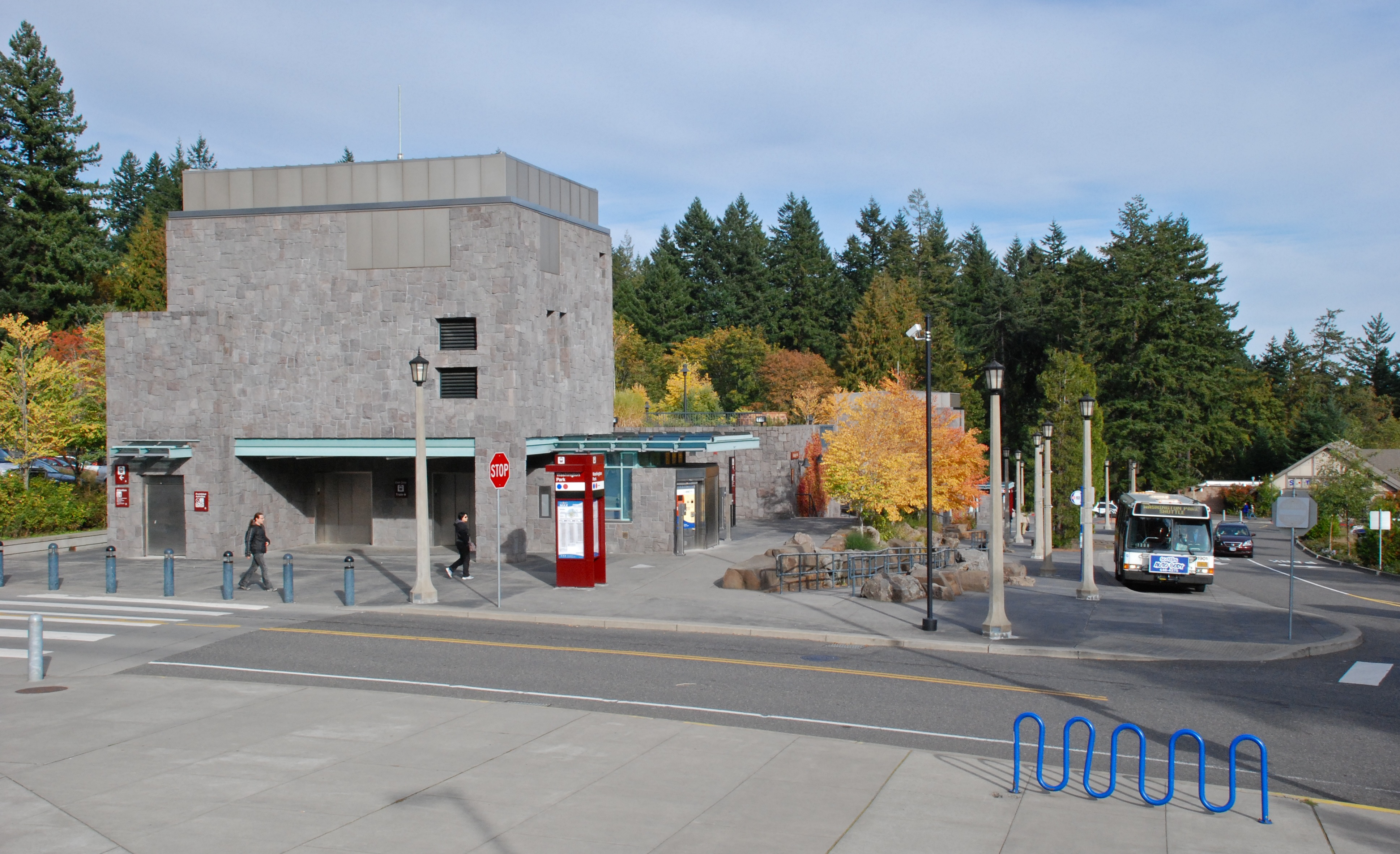 The west head house of the Washington Park station, on TriMet's MAX light rail system, in Portland, Oregon. It houses the tops of two elevator shafts and an emergency stairway. A bicycle rack is in the foreground, and in the center right a bus is laying over on TriMet's Washington Park Shuttle route. The entrance to the Oregon Zoo is located just out of frame, immediately to the right of the building in the righthand background.